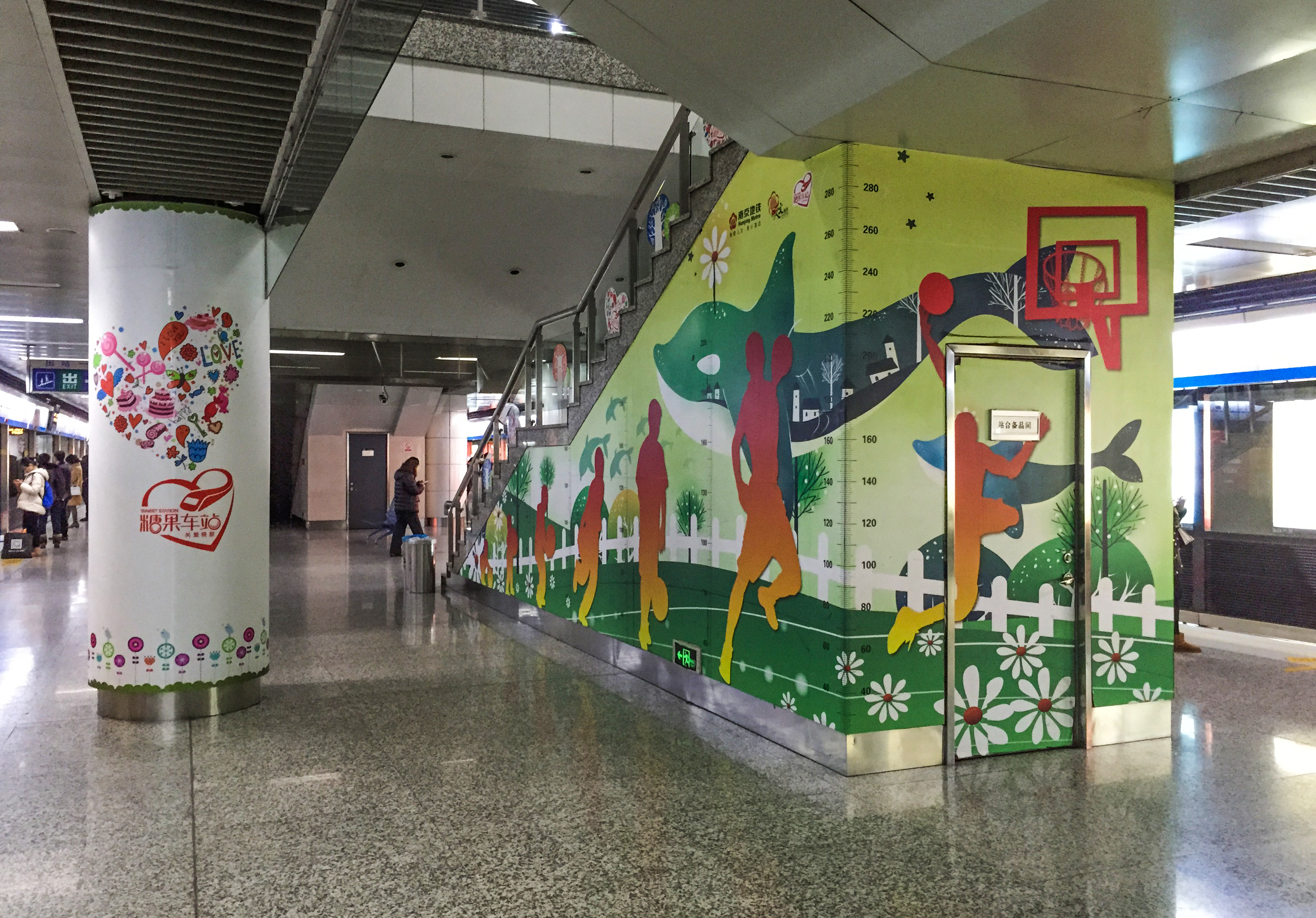 A height ruler is also here?